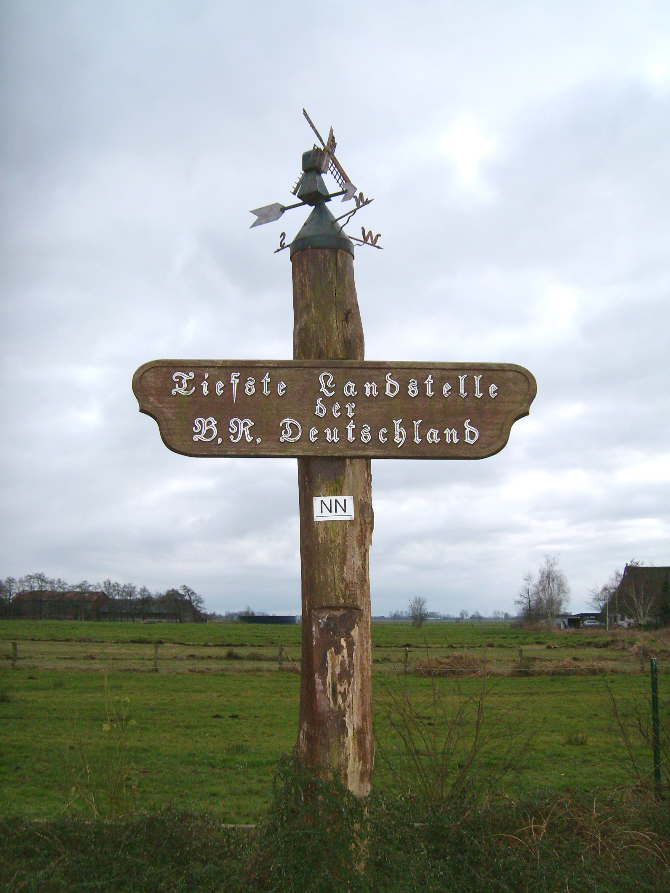 Sign at the lowest land point in Germany in the Wilstermarsch at 3,54 meters below sea level.